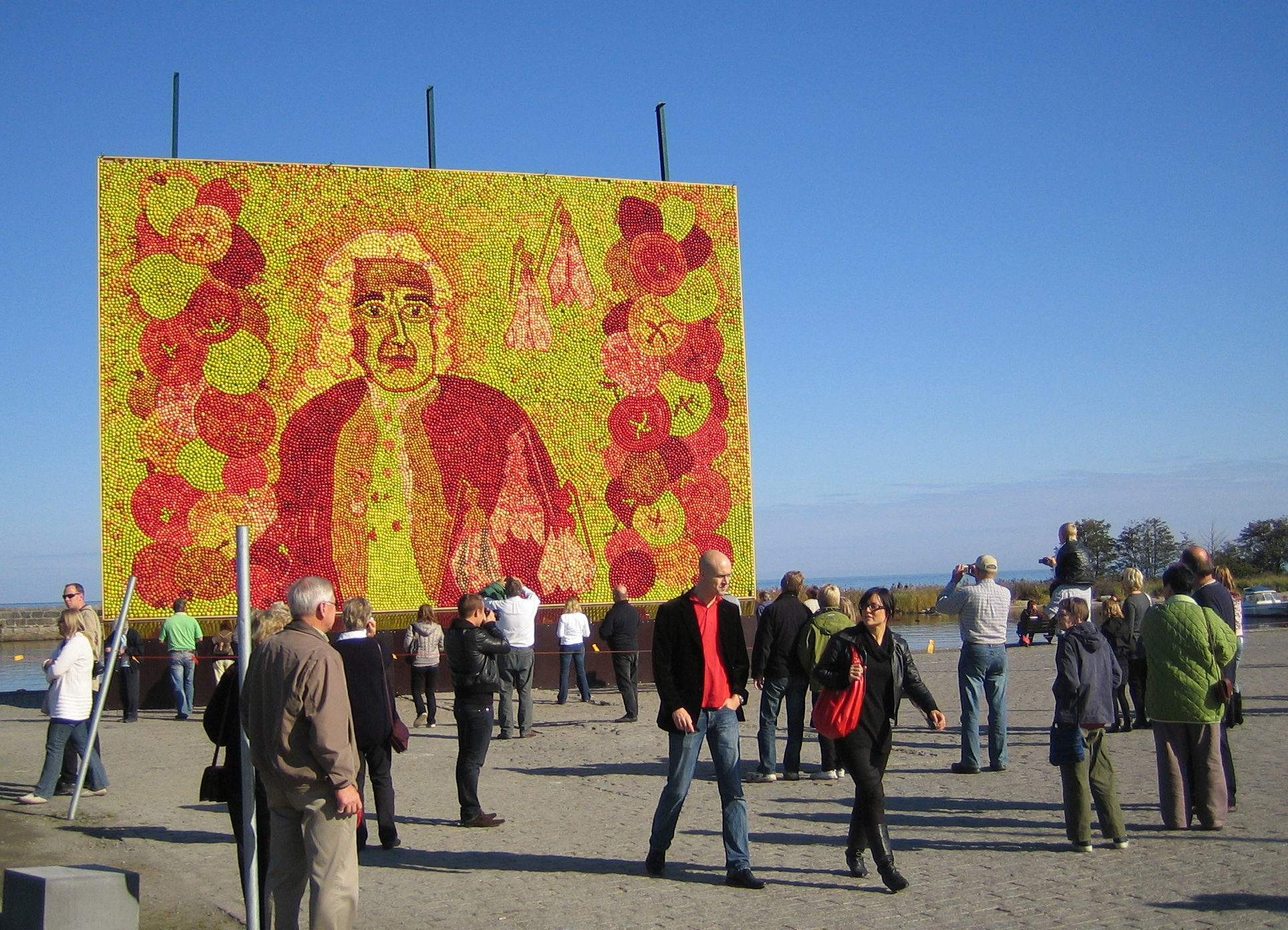 Äppeltavlan in Kivik, Sweden. It depicts Carl von Linné.